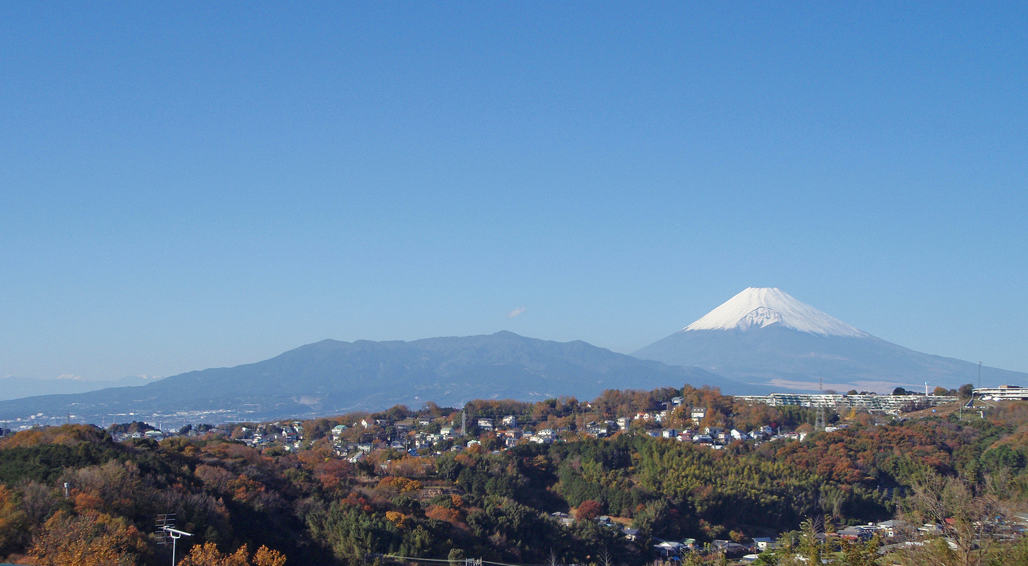 Mount Ashitaka and Mount Fuji as seen from the southeast in Shizuoka Prefecture, Japan. Shot at Kannami.